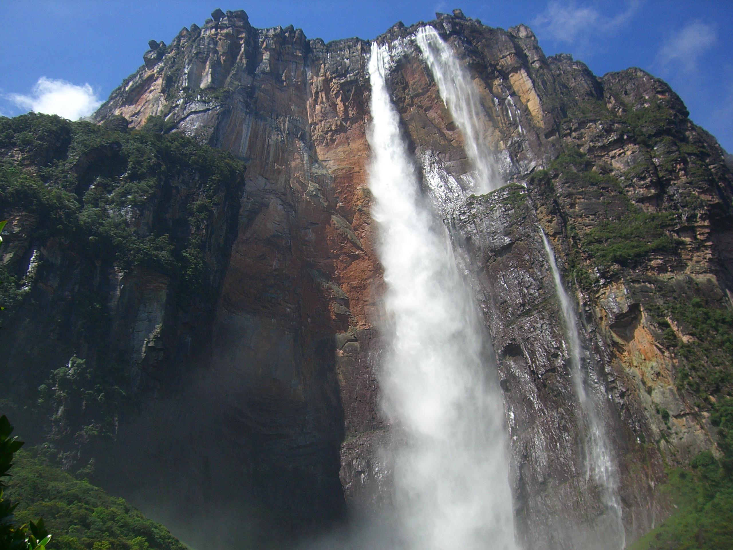 Salto Angel, Canaima, Venezuela